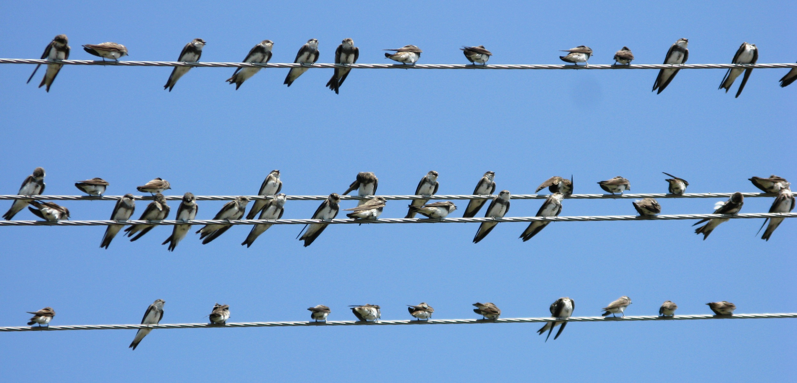 Group of Sand Martin Riparia riparia on power transmission line, Pleshkani, Cherkasy Region, Ukraine.